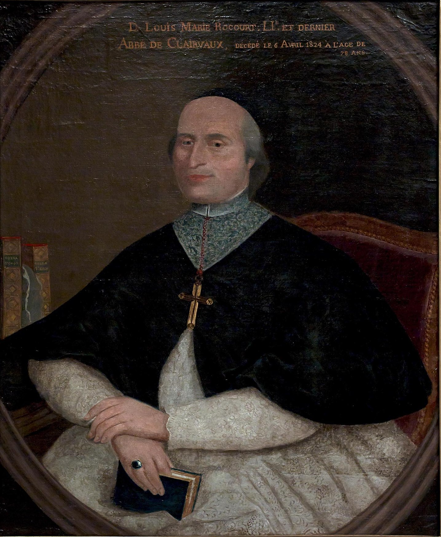 Louis-Marie Rocourt, last abbot of Clairvaux Abbey